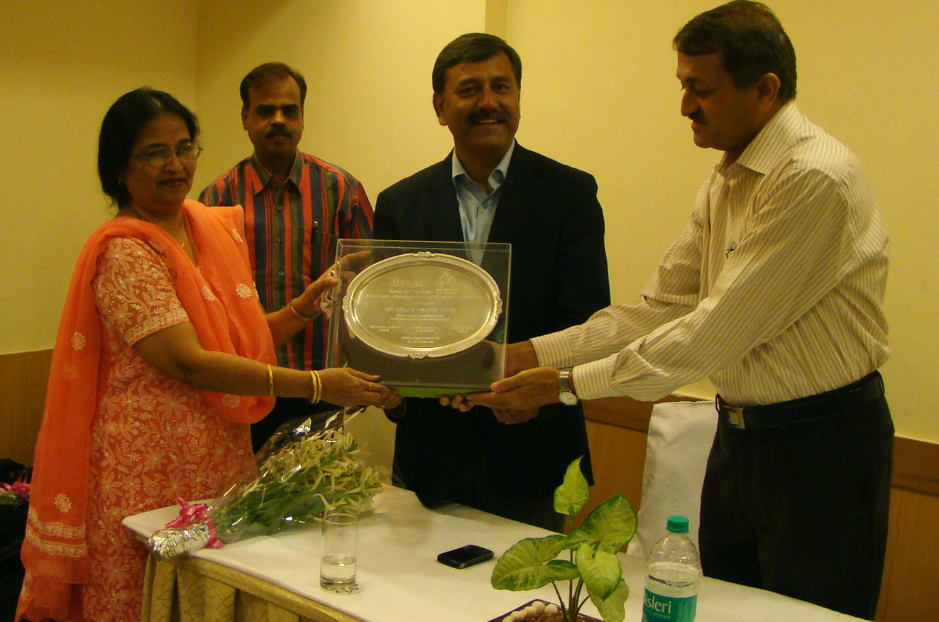 Dr Dulari Qureshi receiving Lifetime Achievement award for promoting Tourism in Maharashtra